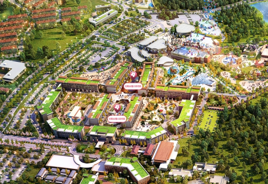 제주신화월드 람정제주개발 조감도